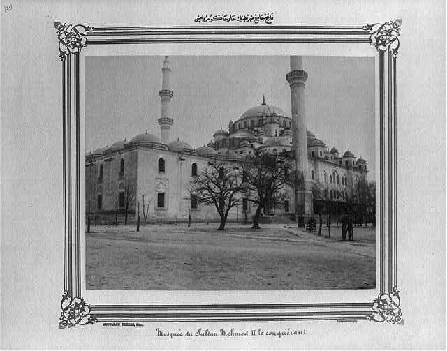 Fatih Mosque between 1880 and 1893 r2